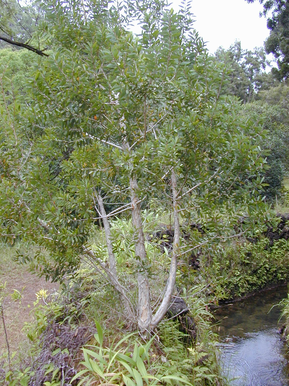 Melaleuca quinquenervia (habit small tree). Location: Maui, Wahinepee